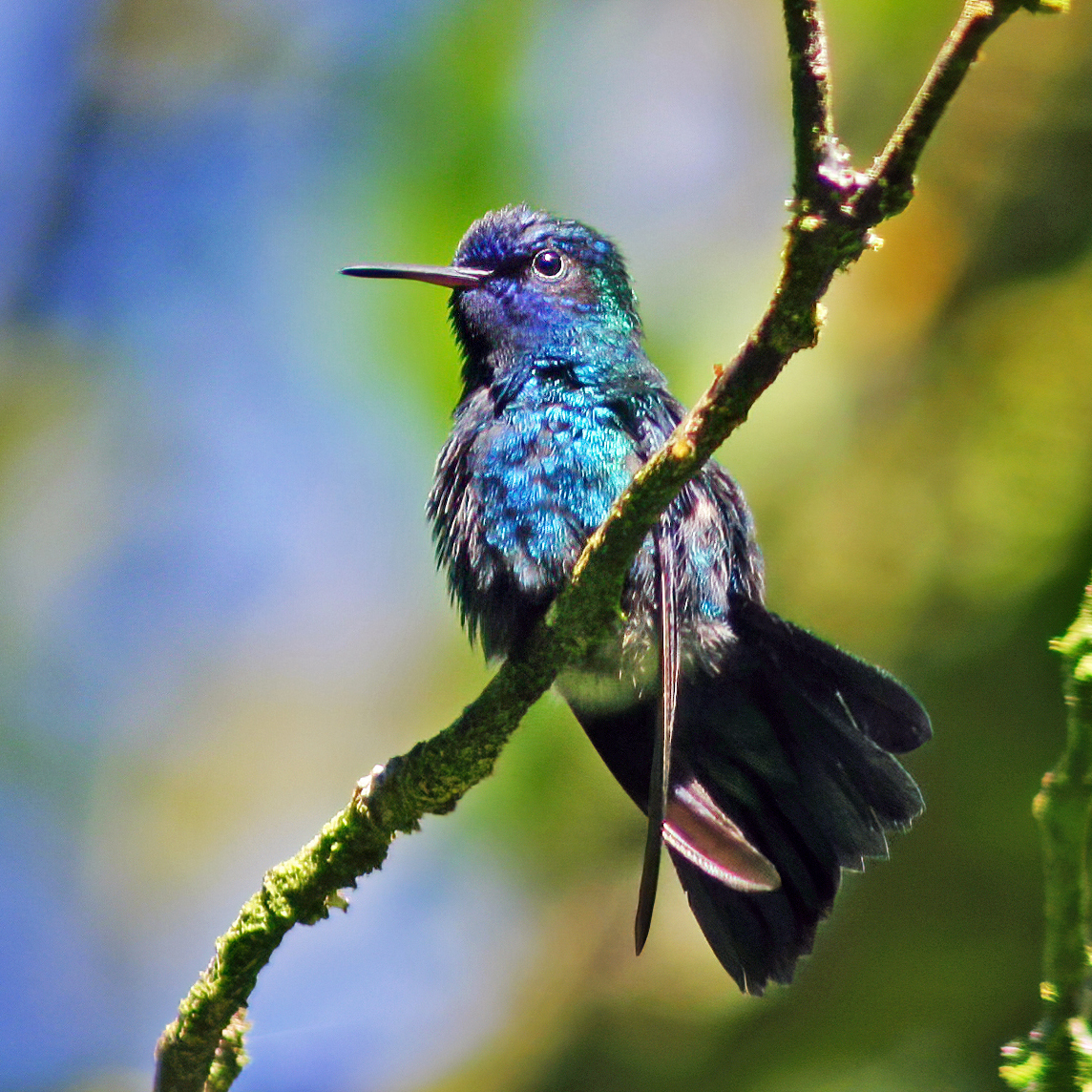 Blue-headed hummingbird (Cyanophaia bicolor) photographed in its natural habitat in the Morne Diablotins National Park in Dominica. Guide was local expert 'Dr Birdy' Bertrand Baptiste.